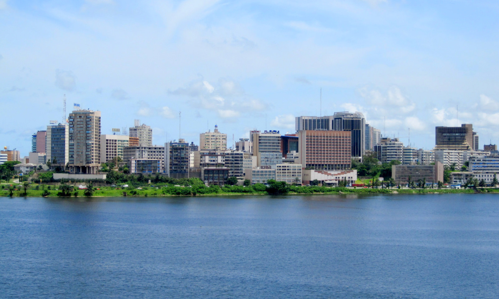 View of Le Plateau, the central business district of Abidjan, former official capital of Côte d'Ivoire and current economic and administrative capital.